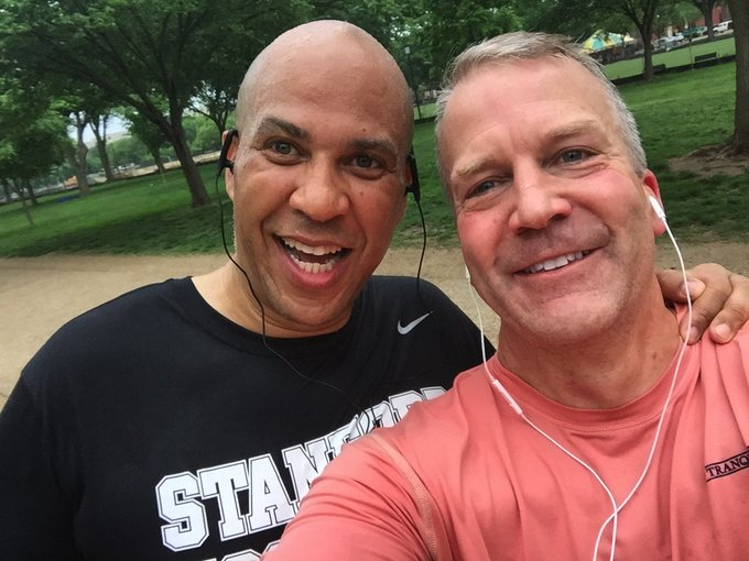 Inaugural meeting of the Senate Running Caucus? Good 2 see Sen. @CoryBooker recently out for a jog on the Mall. #tbt